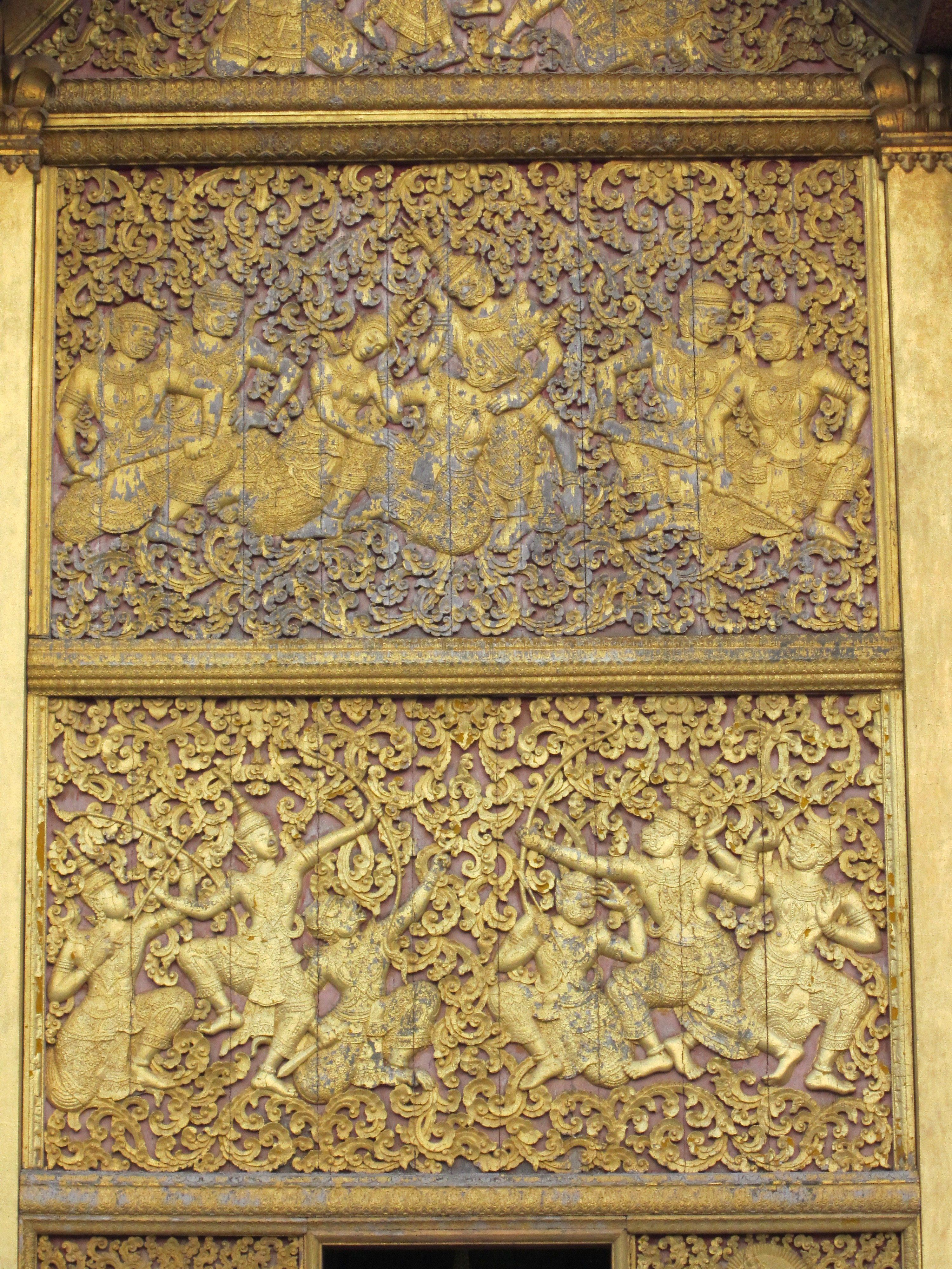 Golden Stupa, Wat Xieng Thong. Outside gilded carved wood, above main door.